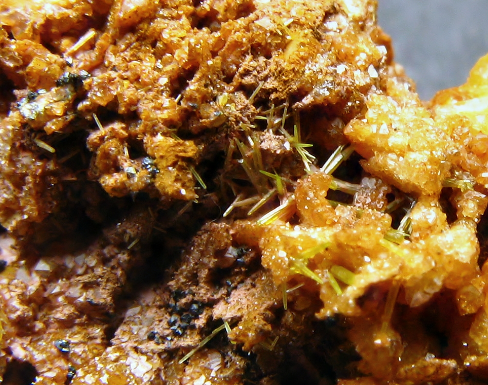 Duftite Dimensions over all: 4,0 cm × 2,2 cm × 1,7 cm (see File:Duftit-1632.jpg) Locality: Clara pit, Oberwolfach, Black Forest, Germany Description: Small, yellowish green, needlelike Duftite crystals as crack filling in brownish yellow matrix